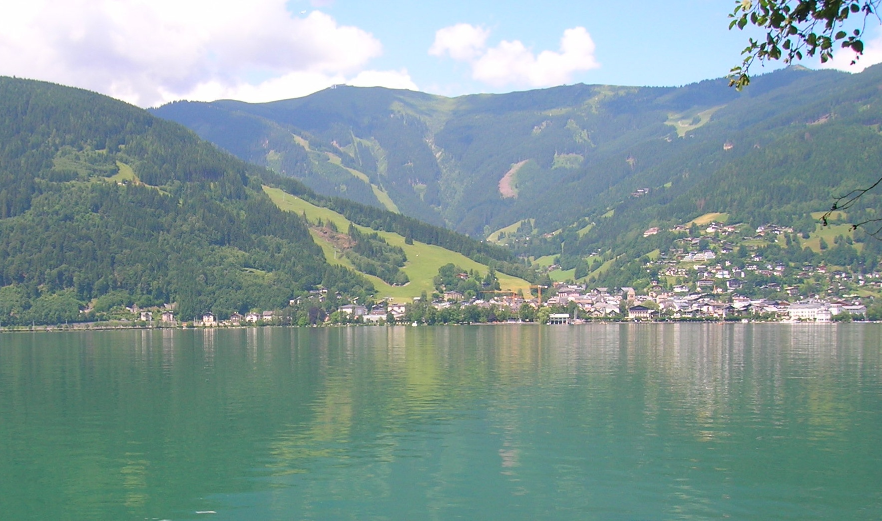 The center of Zell am See, view from the lake. Schmittenhöhe in the background.